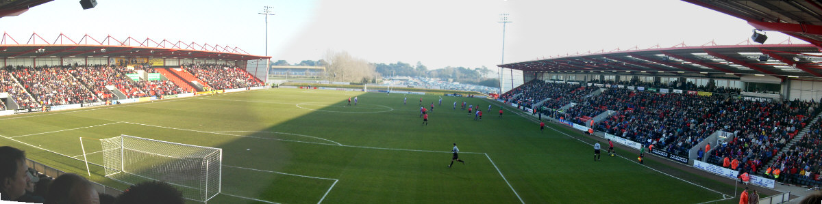 Fitness First Stadium at Dean Court